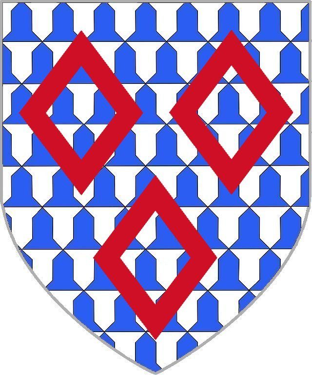 Marmion of Checkendon Arms